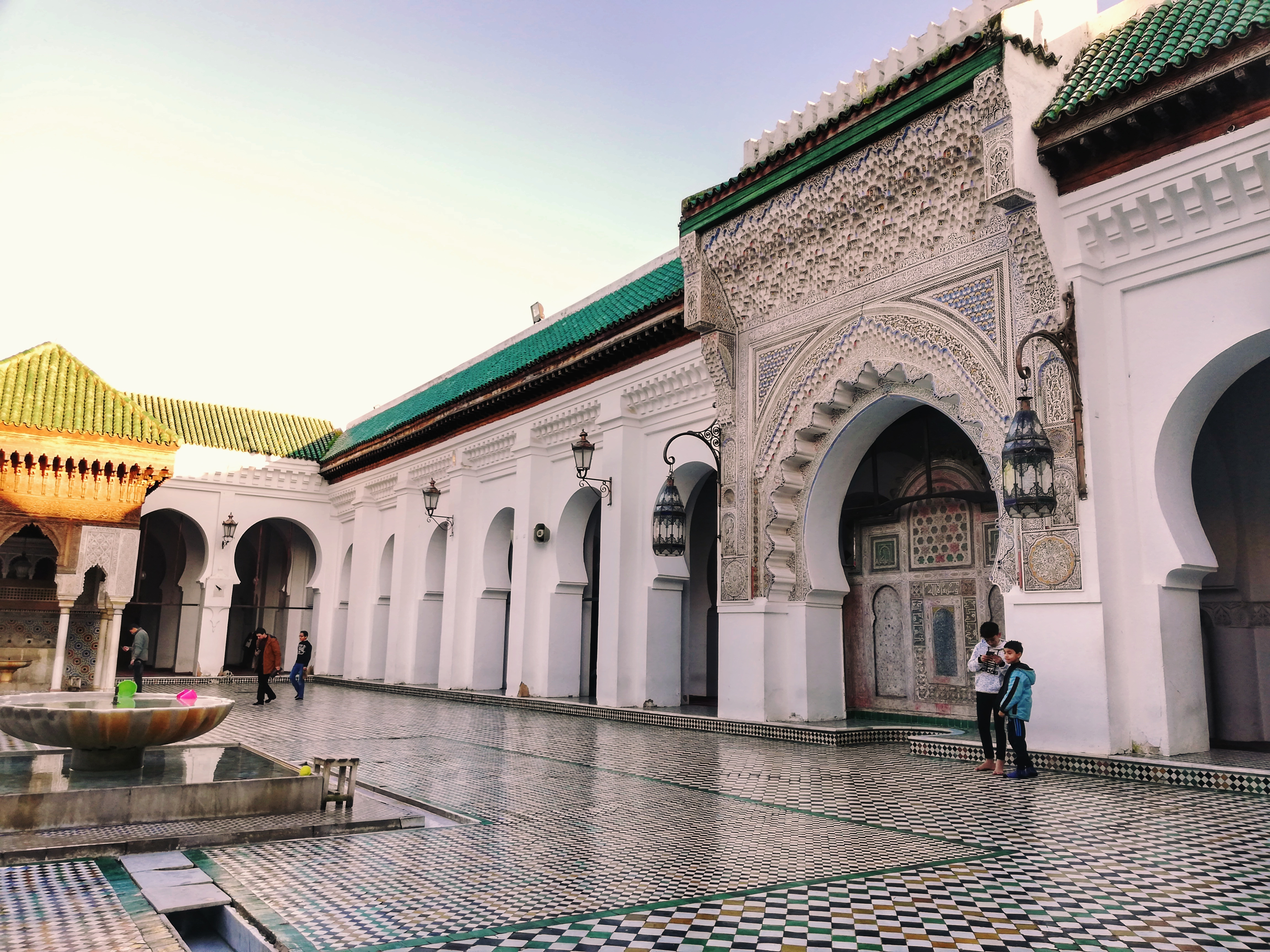 The first university of the world This is an image with the theme "Play" from: Morocco